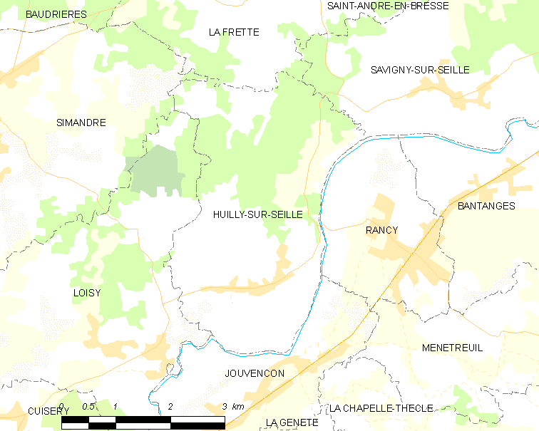 Map of French municipality